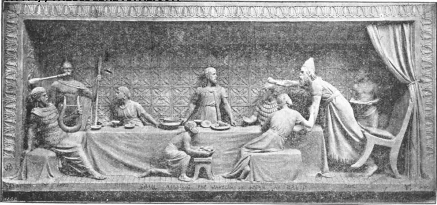 "Saul Throws Spear at David" by George Tinworth, Terra cotta Bas relief.